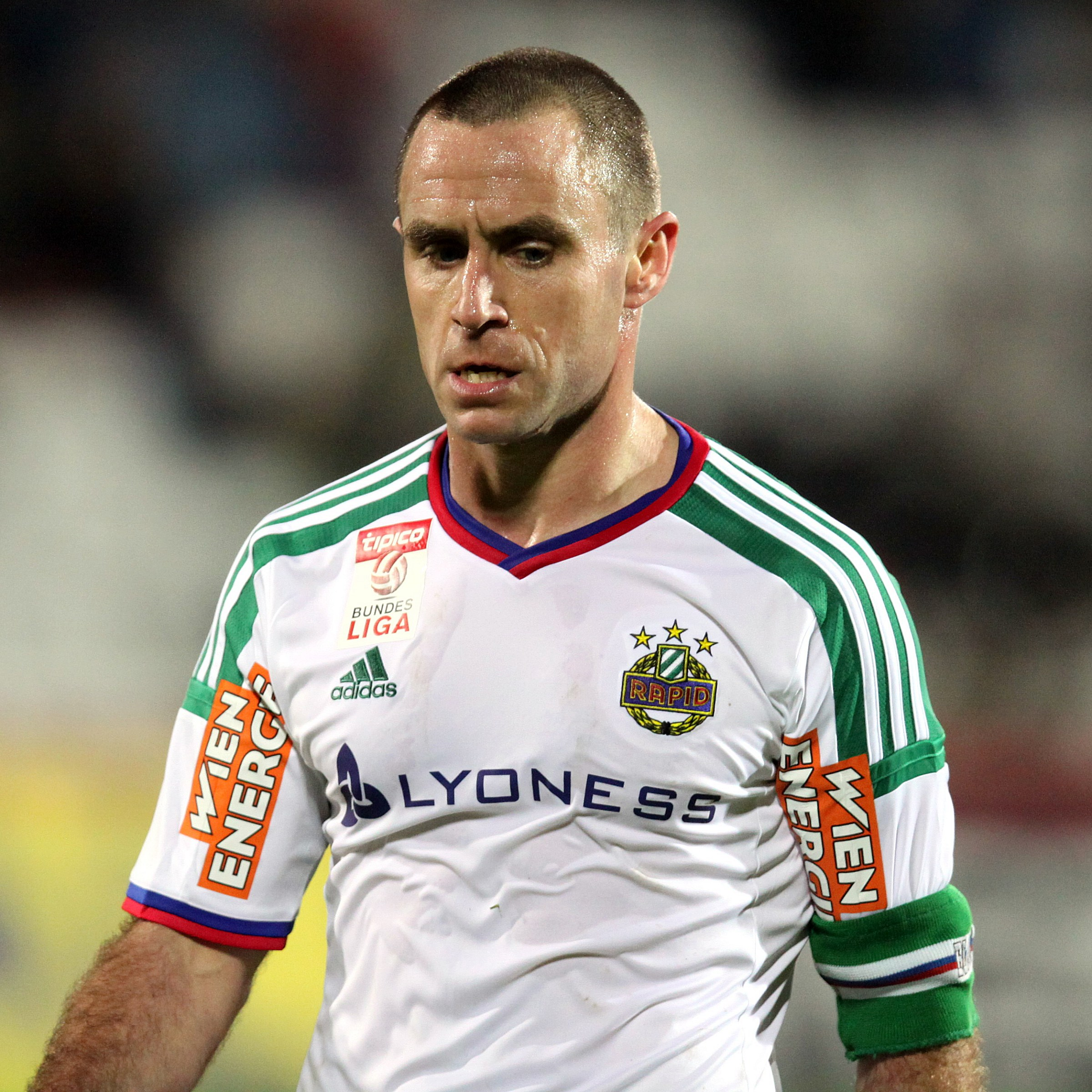 Match of the Austrian Football Bundesliga – FC Admira Wacker Mödling (red shirts) vs. SK Rapid Wien (white shirts) 2-1 (0-1) on 2015-12-02 in Bundesstadion Sudstadt – The photo shows Steffen Hofmann.